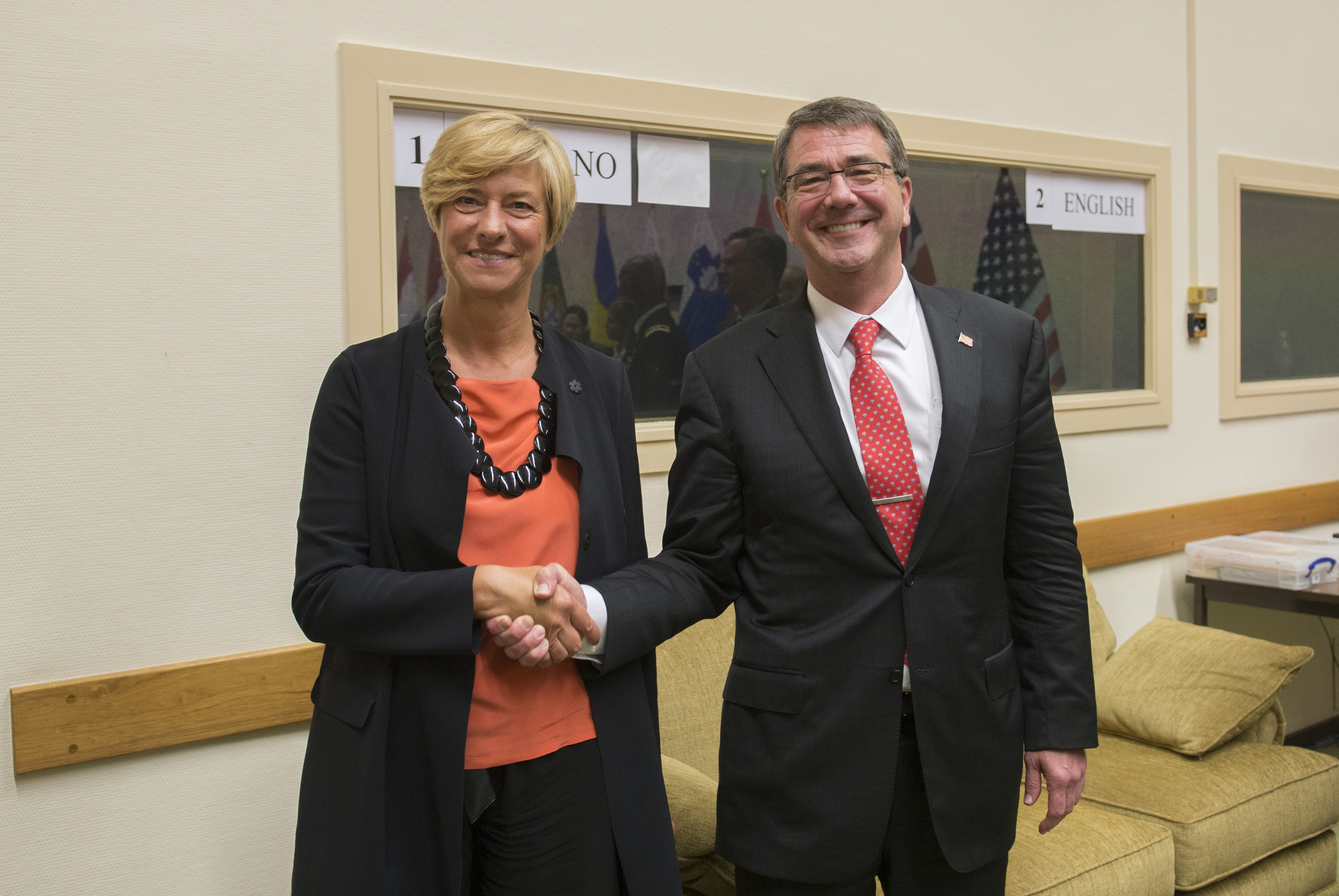 Secretary of Defense Ash Carter poses for a photo with Roberta Pinotti, Italian minister of defense at NATO Headquarters in Brussels, Belgium, during a bilateral discussion to discuss matters of mutual importance. Carter is participating in his first NATO ministerial as defense secretary June 24, 2015. (Photo by Master Sgt. Adrian Cadiz)(Released)